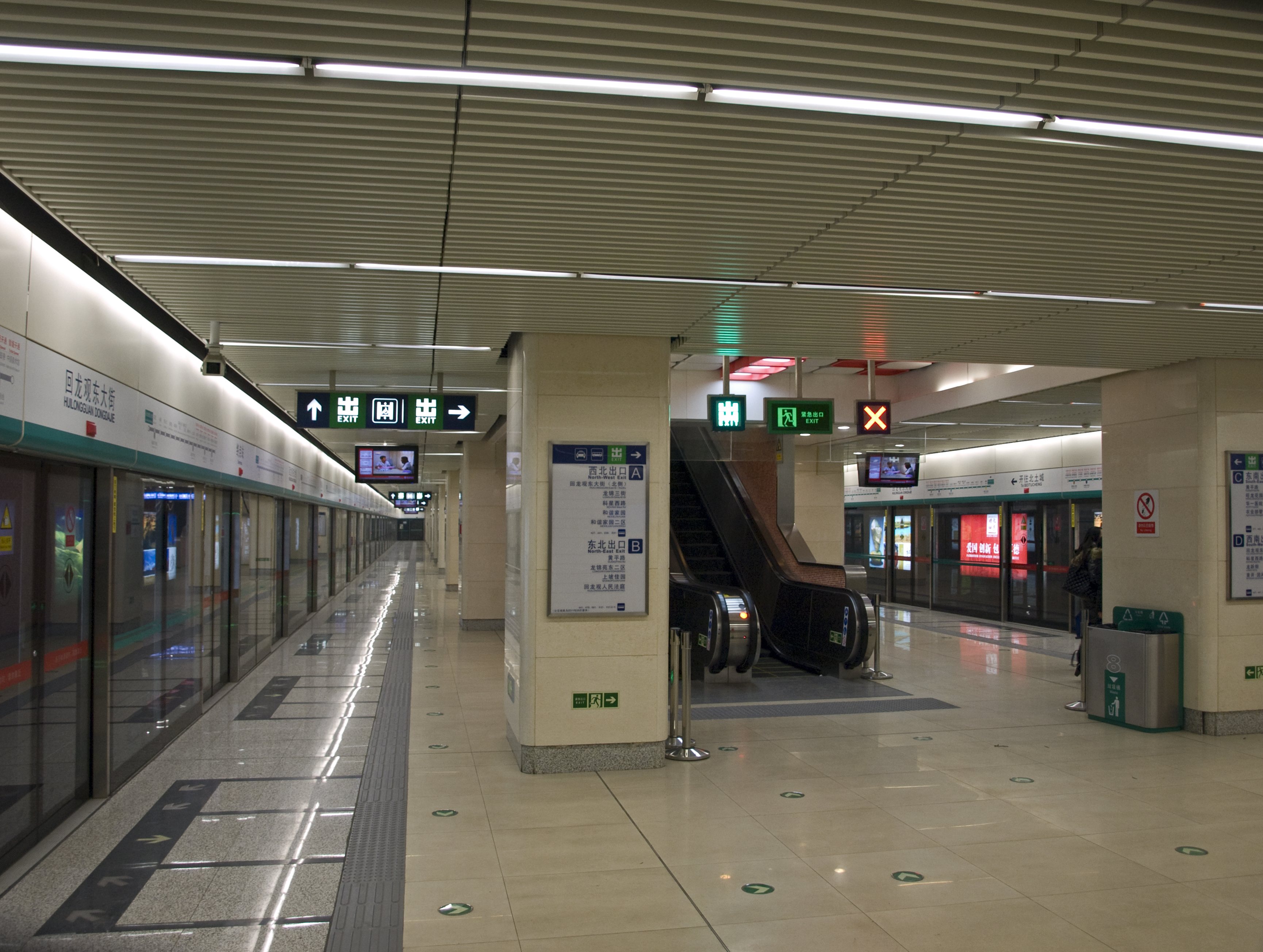 Huilongguan Dongdajie station, Beijing Subway